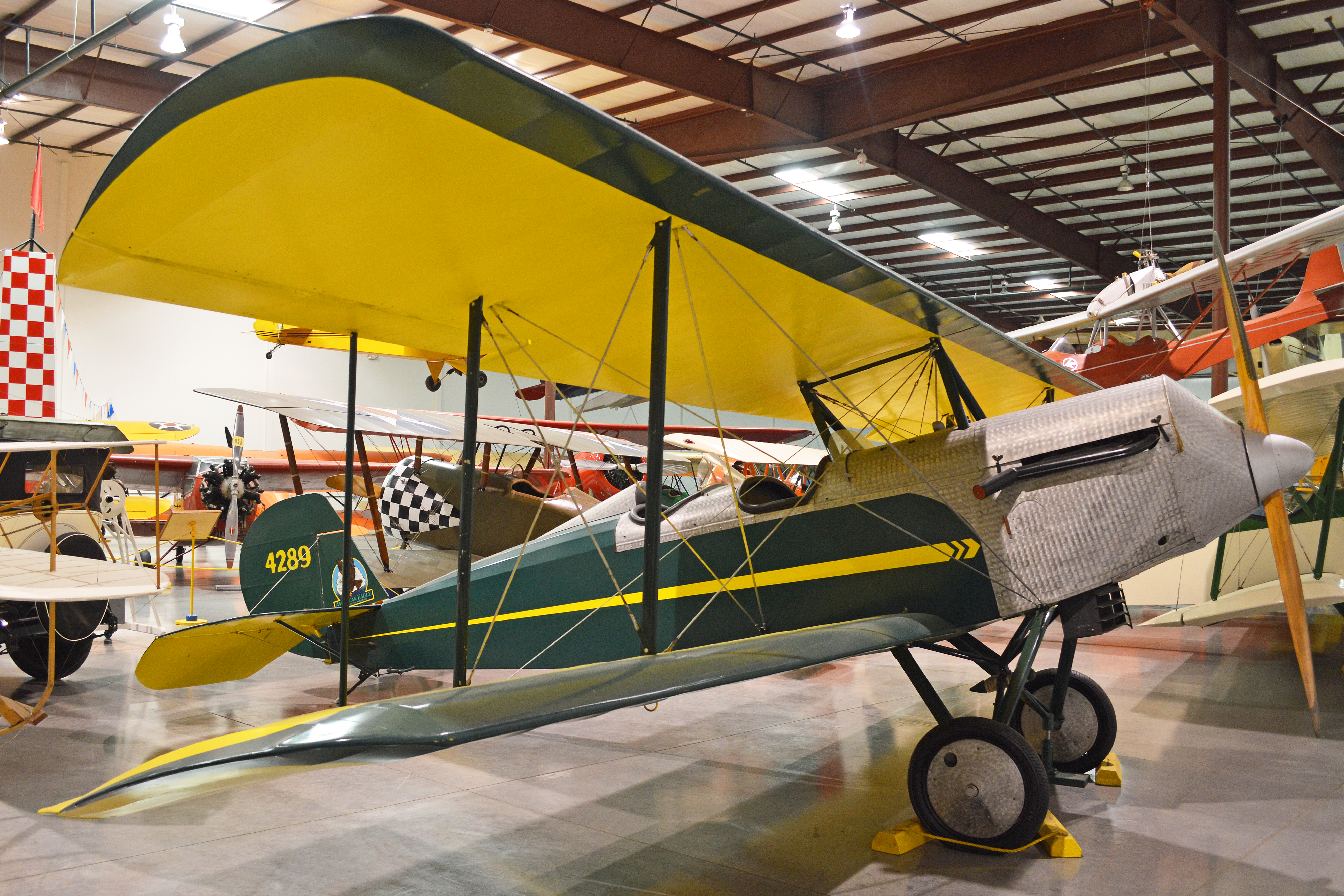 c/n 100. On display in Hangar 1. Yanks Air Museum, Chino, California, USA 28-2-2016